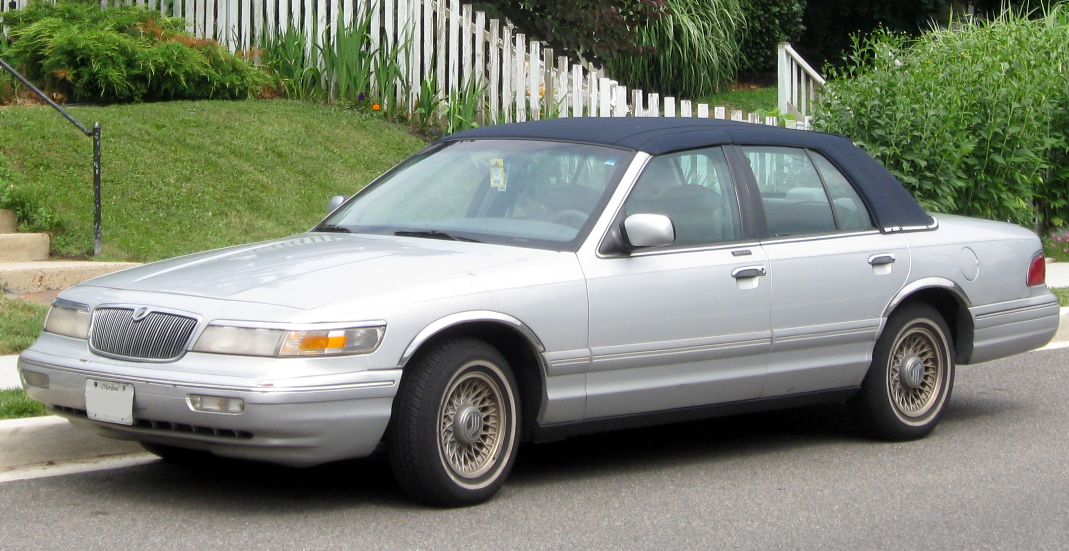 1995-1997 Mercury Grand Marquis photographed in Washington, D.C., USA.